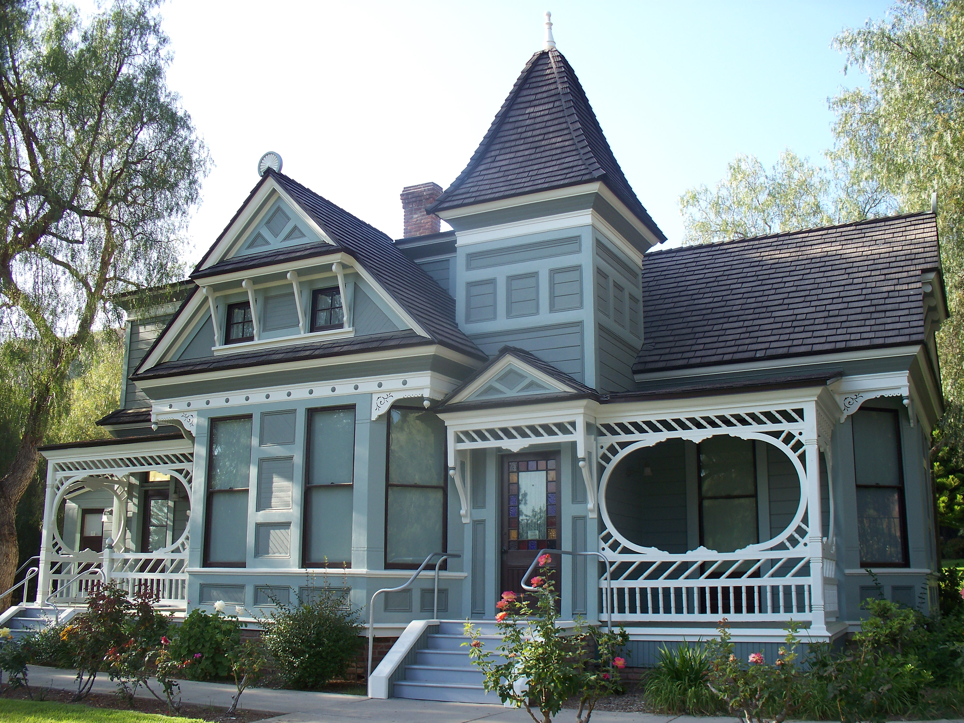 Doctors House (Circa 1890) Glendale, California Historic marker reads: The Doctors House. A Glendale Landmark is named for the three prominent physicians: Dr. C.V.Bogue, Dr. D.W.Hunt, and Dr. A.L. Bryant, and one of the few remaining residences of Queen Anne Eastlake style of architecture in Glendale. It was originally located on the northwest corner of Wilson and Belmont. When a Permit was issued for its demolition in 1979. A Successful rescue effort was initiated by councilman John F. Day. The Glendale Historical Society then organized to assume responsibility . Moved the house to this site in 1980 and Began the process of painstaking restoration with the generous assistance of numerous other Glendale organizations businesses and concerned individuals.